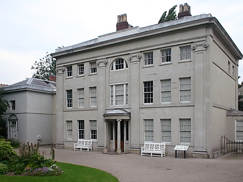 Soho House, Matthew Boulton's House in Handsworth, Birmingham, England.